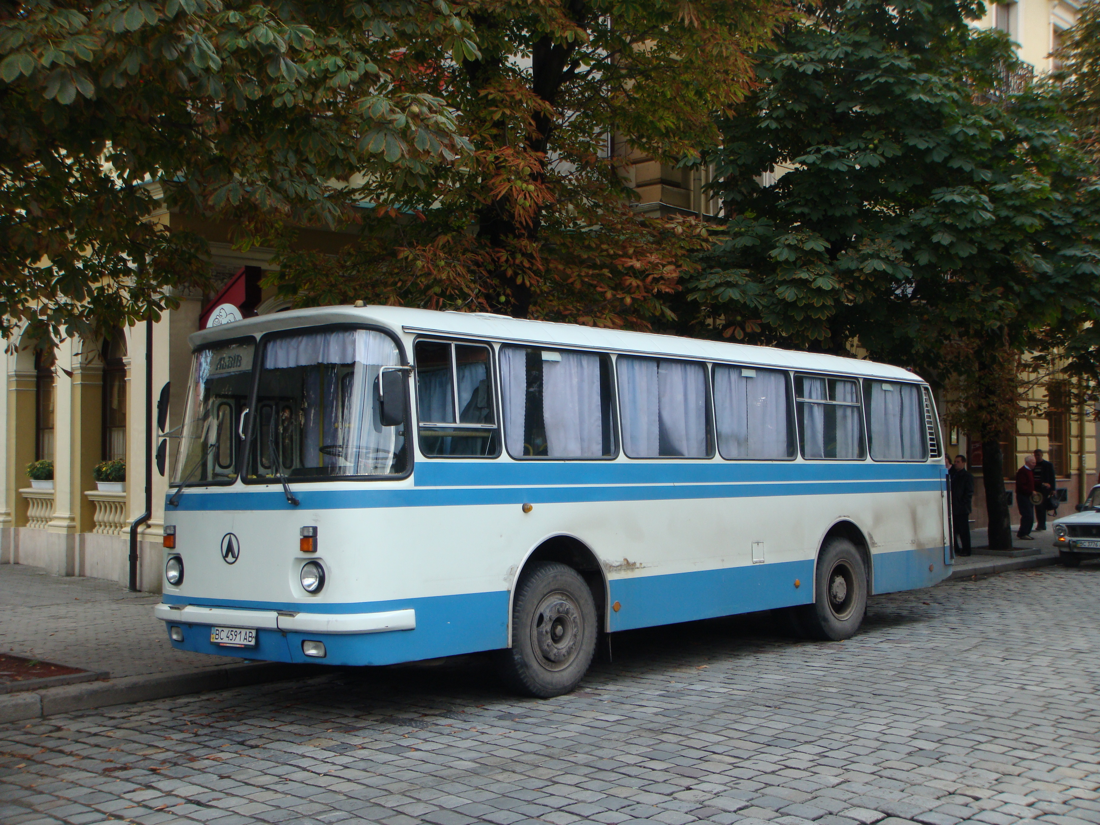 LAZ 695N bus in Lviv, Ukraine.